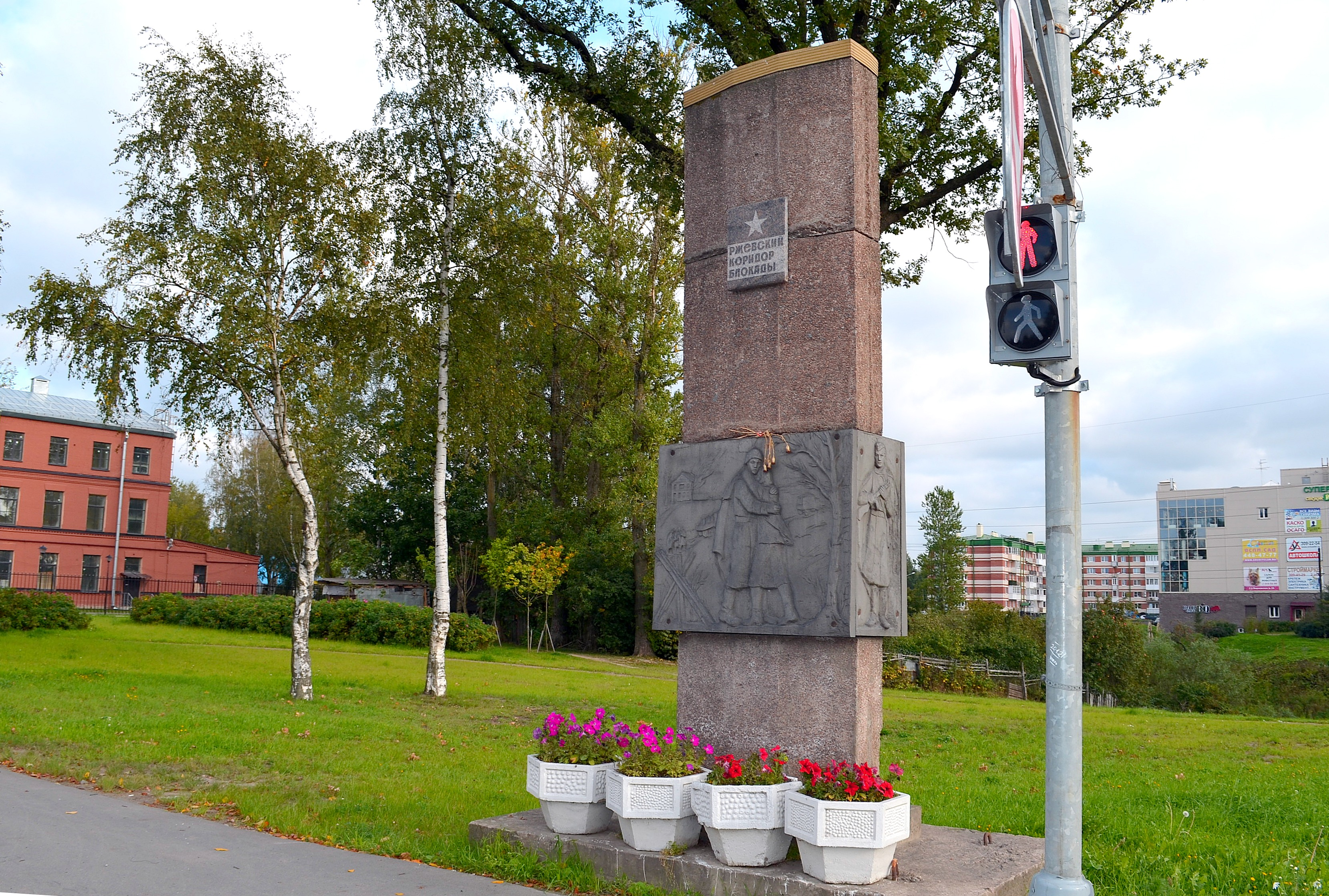 Stela "Rzhevskiy corridor of the blockade": Krasina street, Krasnogvardeisky district, St. Petersburg.